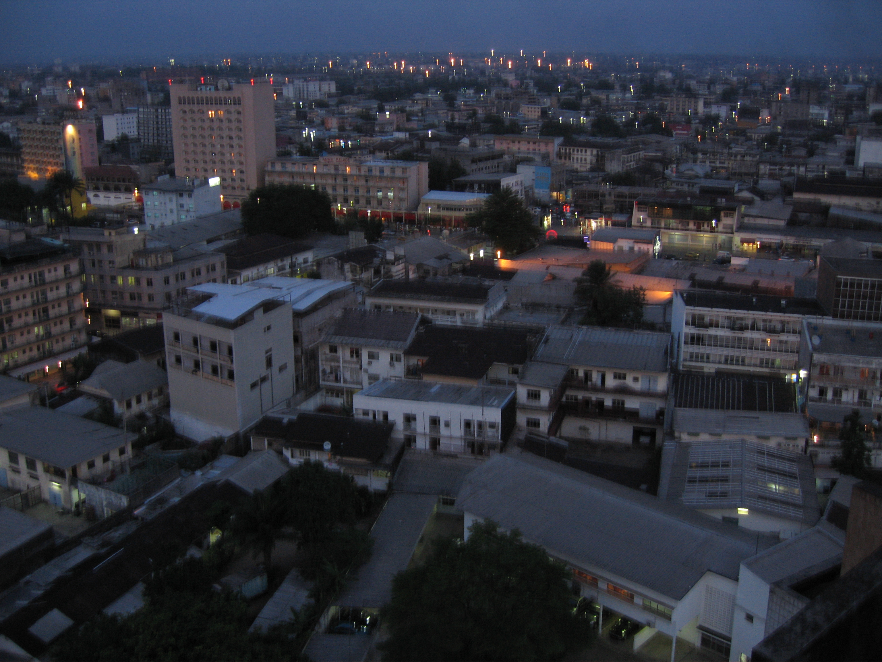 Ars&Urbis International Workshop, organized by doual'art in collaboration with iStrike Foundation, Douala, 2007. Research documentation by Emiliano Gandolfi.